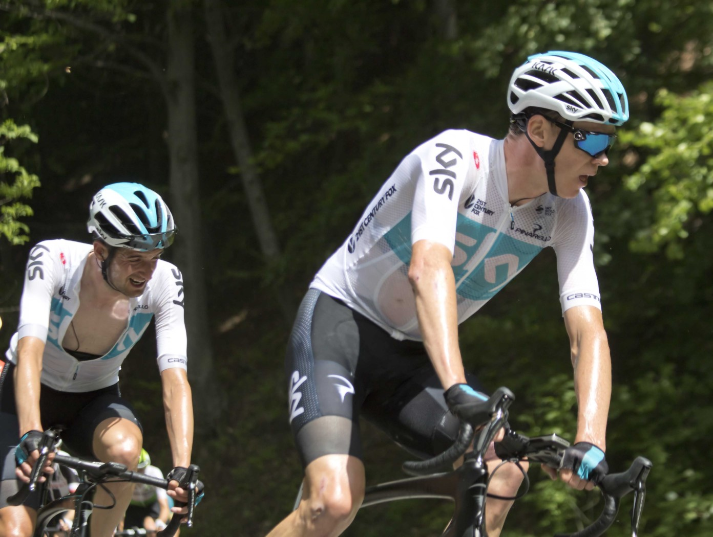 GIR40227 froome poels